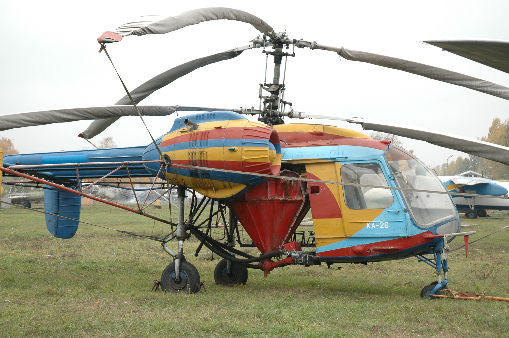 Kamov Ka-26 helicopter